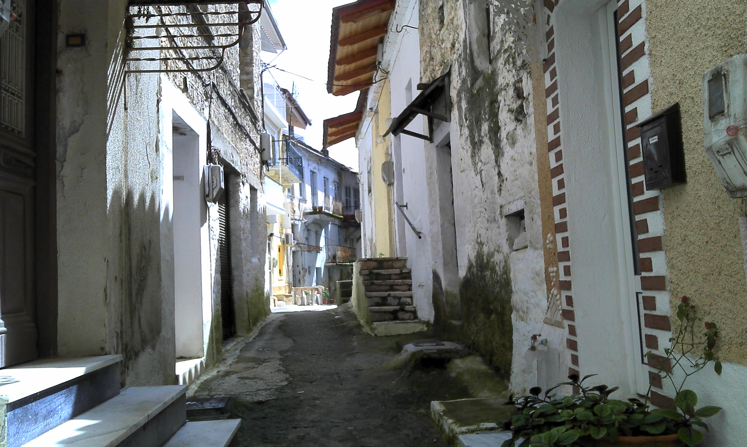 Old part of Paramythia, Greece